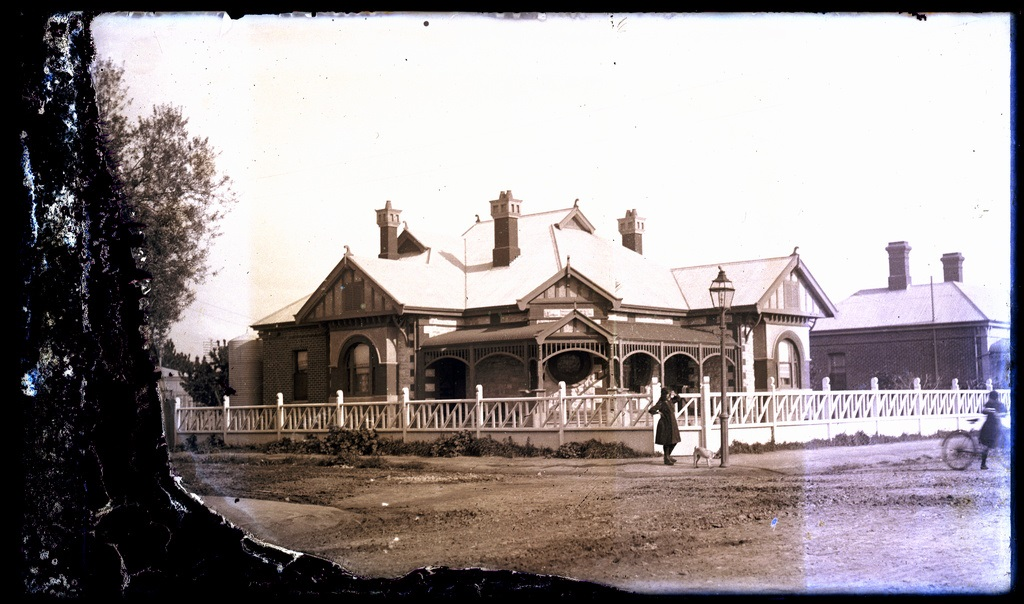 Residence on Queen Street Croydon, built by Arthur Brooker in early 1900s.